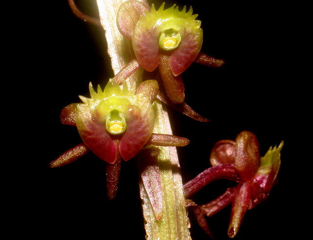 Crepidium purpureiflorum